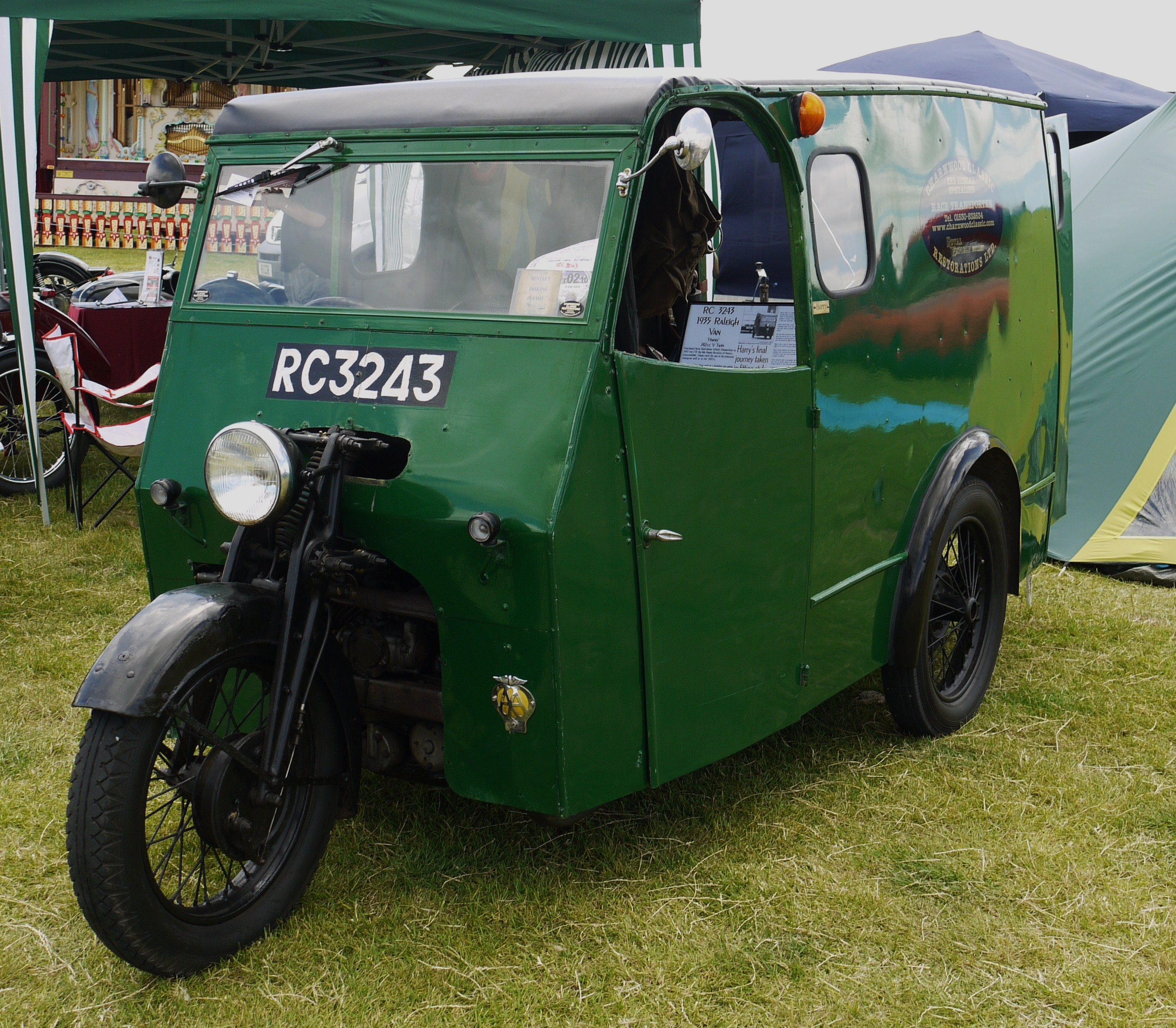 Raleigh Karryall 3 Wheel Van 1935